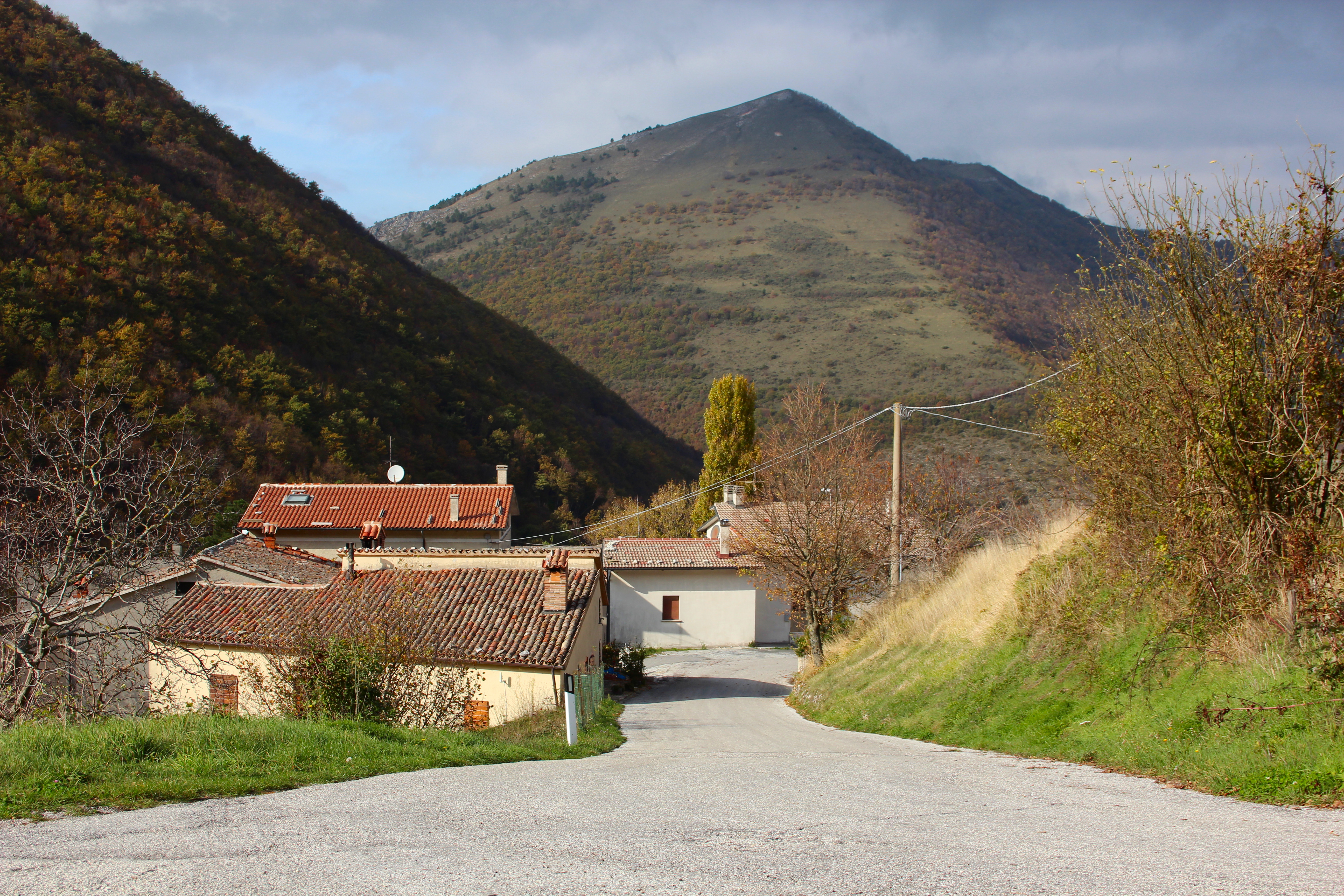 Campitello, hamlet of Scheggia e Pascelupo, Province of Perugia, Umbria, Italy